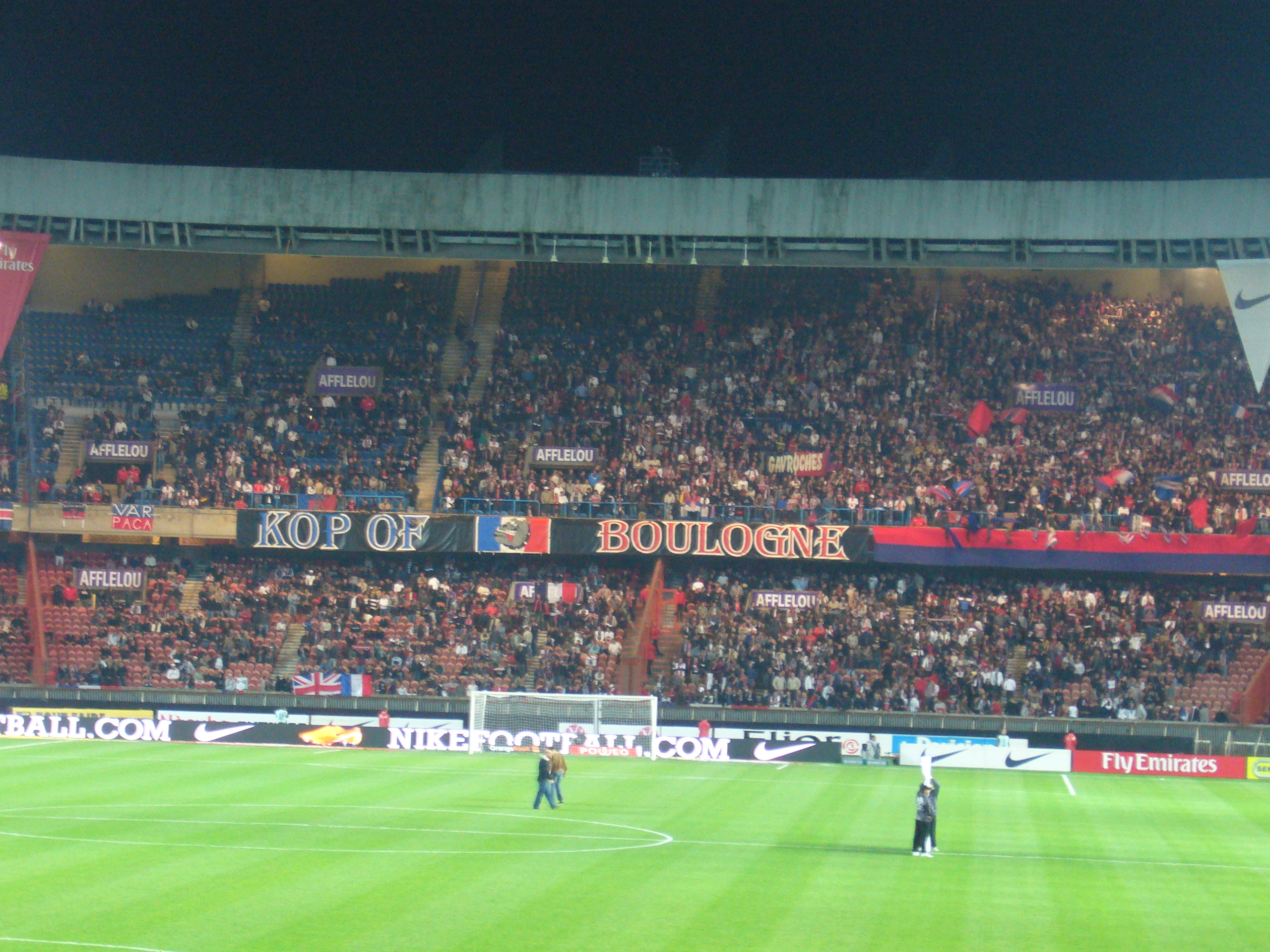 Kop of Boulogne Paris SG 0-1 FC Grenoble, Parc des Princes, 27 Sep 2008, Paris.